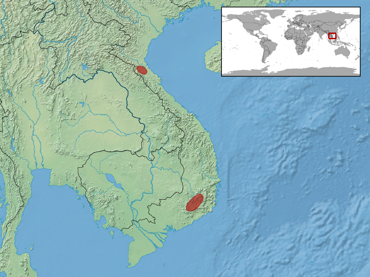 geographic distribution of Calamaria buchi (Native: Viet Nam)